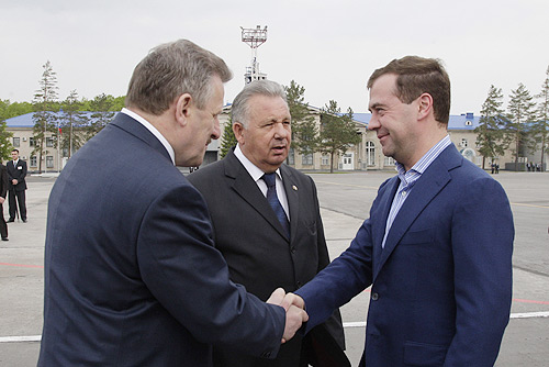 KHABAROVSK. Arrival in Khabarovsk. With Presidential Plenipotentiary Envoy to the Far Eastern Federal District Viktor Ishayev and Governor of Khabarovsk Territory Vyacheslav Shport.